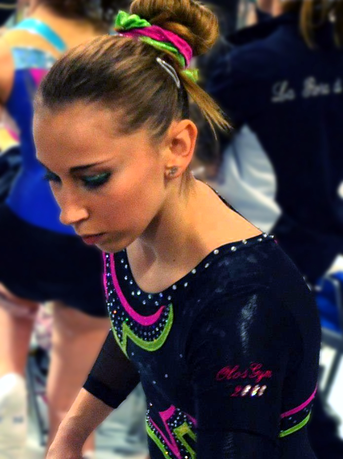 Giorgia Campana. Padua, 23rd february 2013